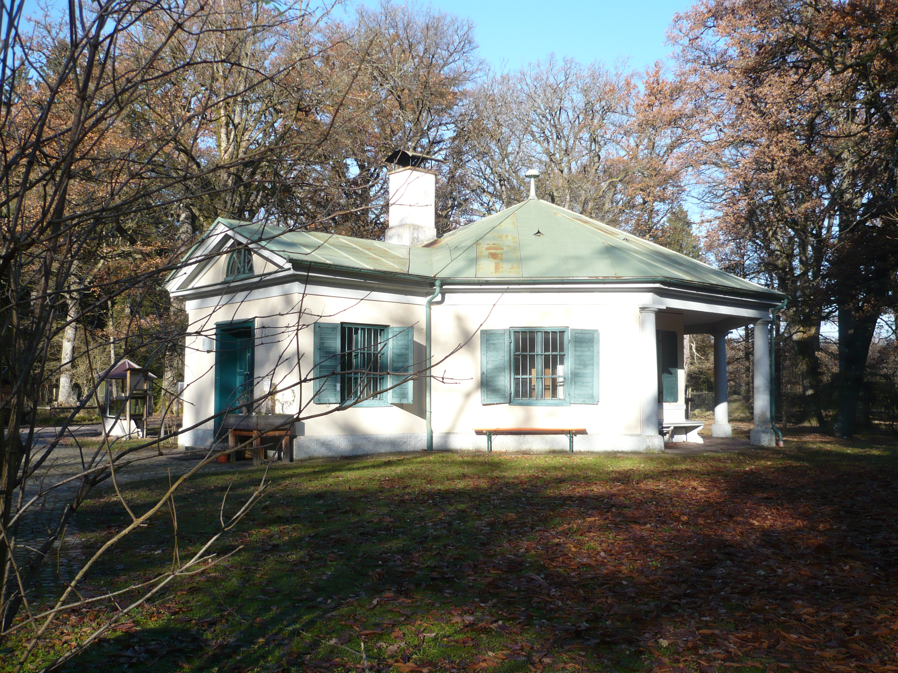 Sauschutt-Grunwald near Munich (Germany) - Hunting pavillon